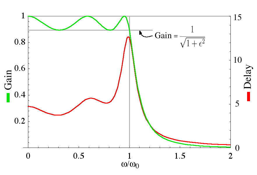 Gain (green) and group delay (red) of a 5th order Chebyshev type I electronic filter with ε=0.5.